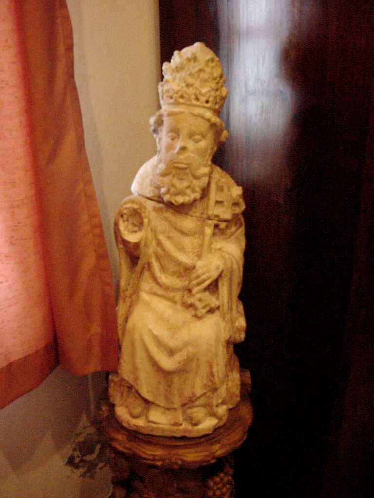 Image of the Eternal Father, from the Museum chamber of the parochial church of Ribeirinha, Angra do Heroísmo, Terceira (Azores), Portugal